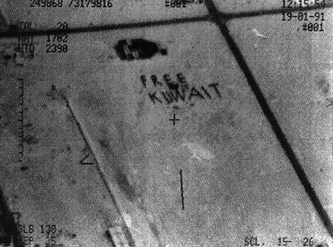 Image of Kuwaiti Coast taken by Pioneer from USS Wisconsin, Jan 91. "Free Kuwait" made from 55 gal oil drums.